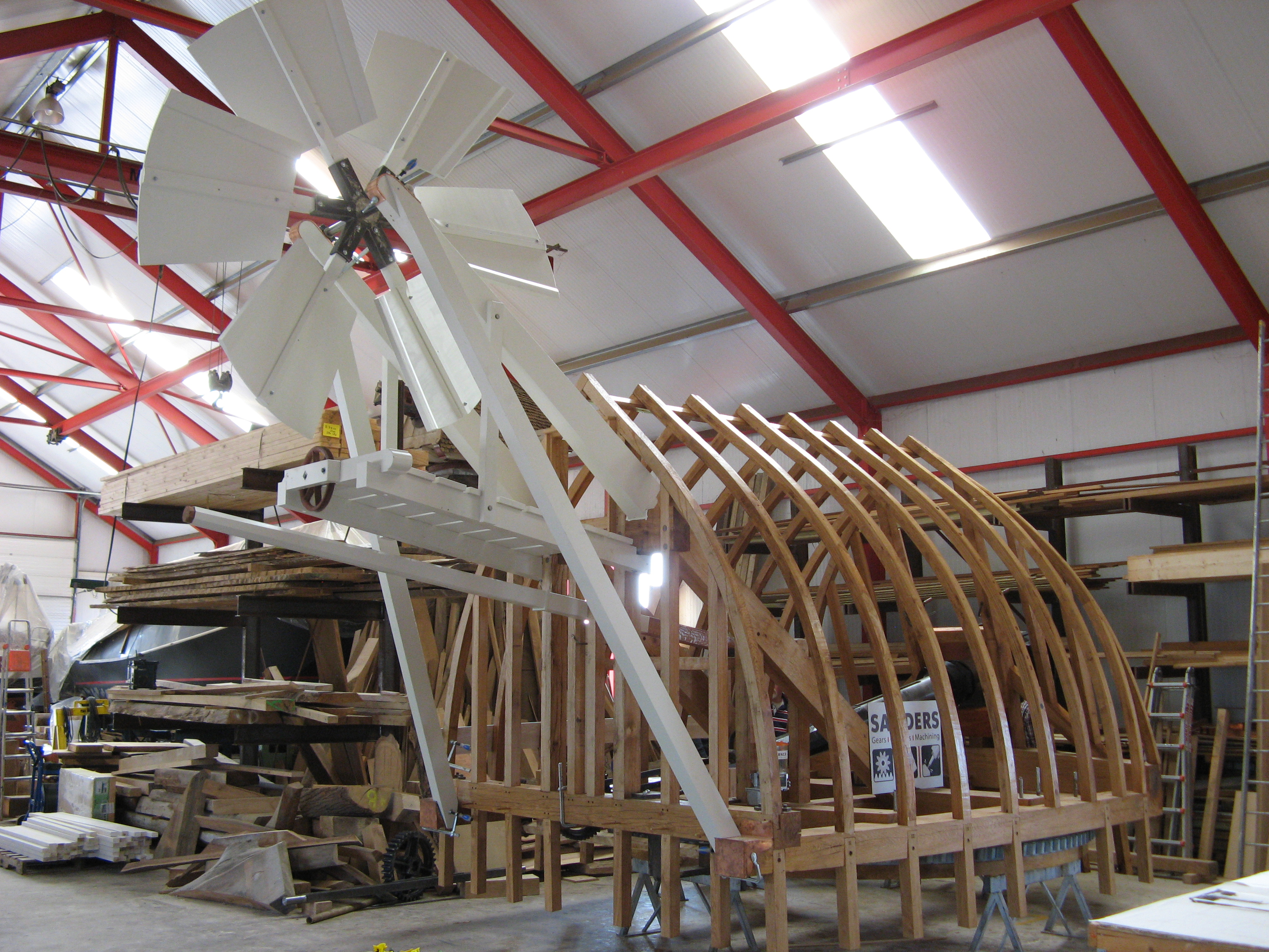 The cap of the Montefiore windmill under construction in the workshop of millwright Bertus Dijkstra in Sloten, the Netherlands